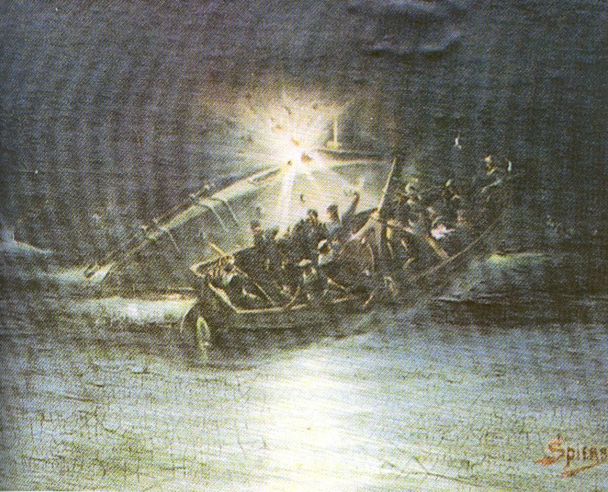 Picture of the naval battle of Callao on 25 th may, 1880, between the peruvain steam boat Independencia and the chilean torpedo boat Janequeo during the War of the Pacific